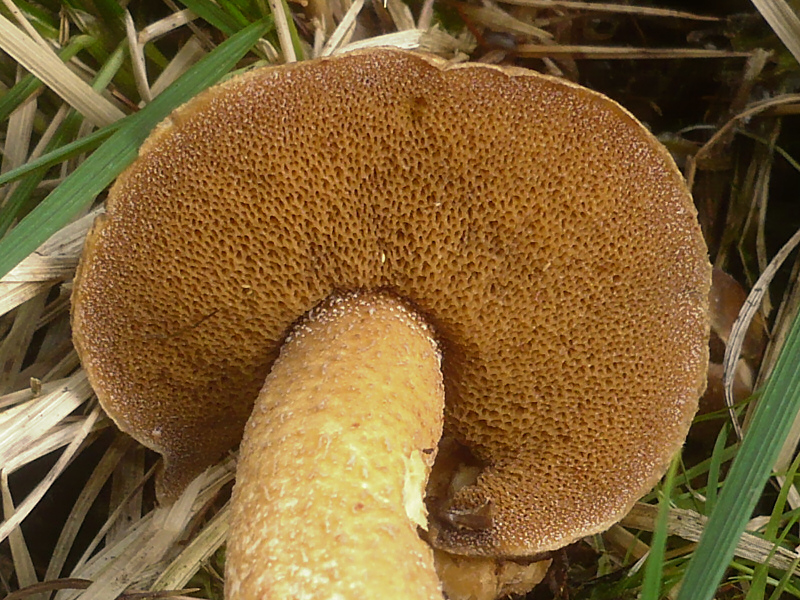 Fruit body of the bolete fungus Suillus plorans (Rolland) Kuntze. Photographed near Prebersee, Haiden, Bezirk Tamsweg, Salzburg, Austria.